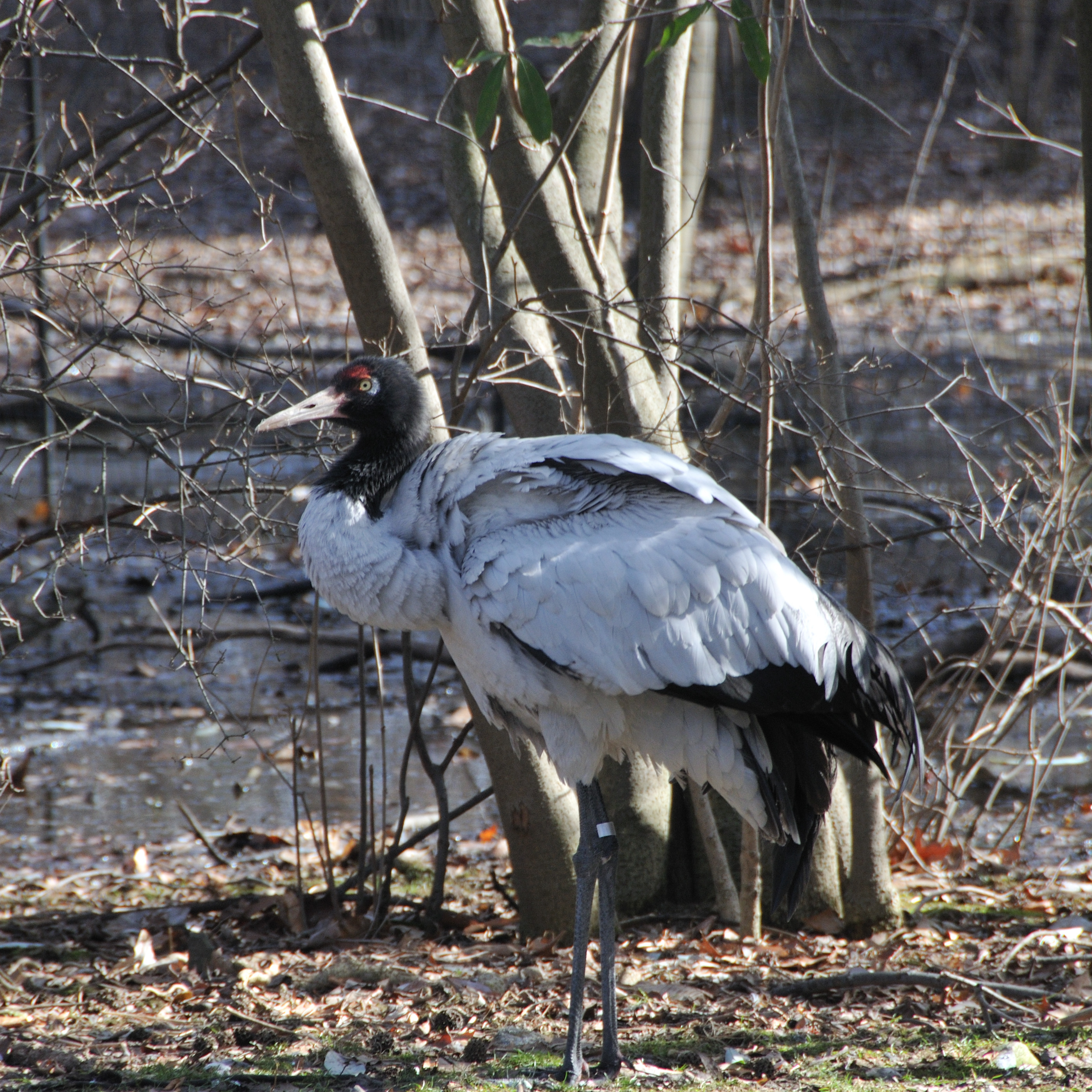 Black-necked Crane also known as Tibetan Crane at Bronx Zoo, New York, USA.